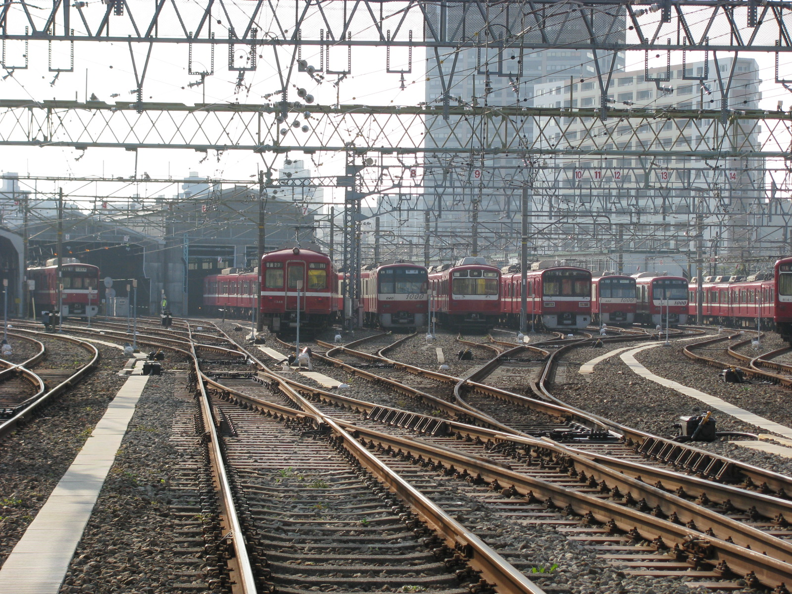 Sinmachi Railway yard of Keihin Electric Express Railway.